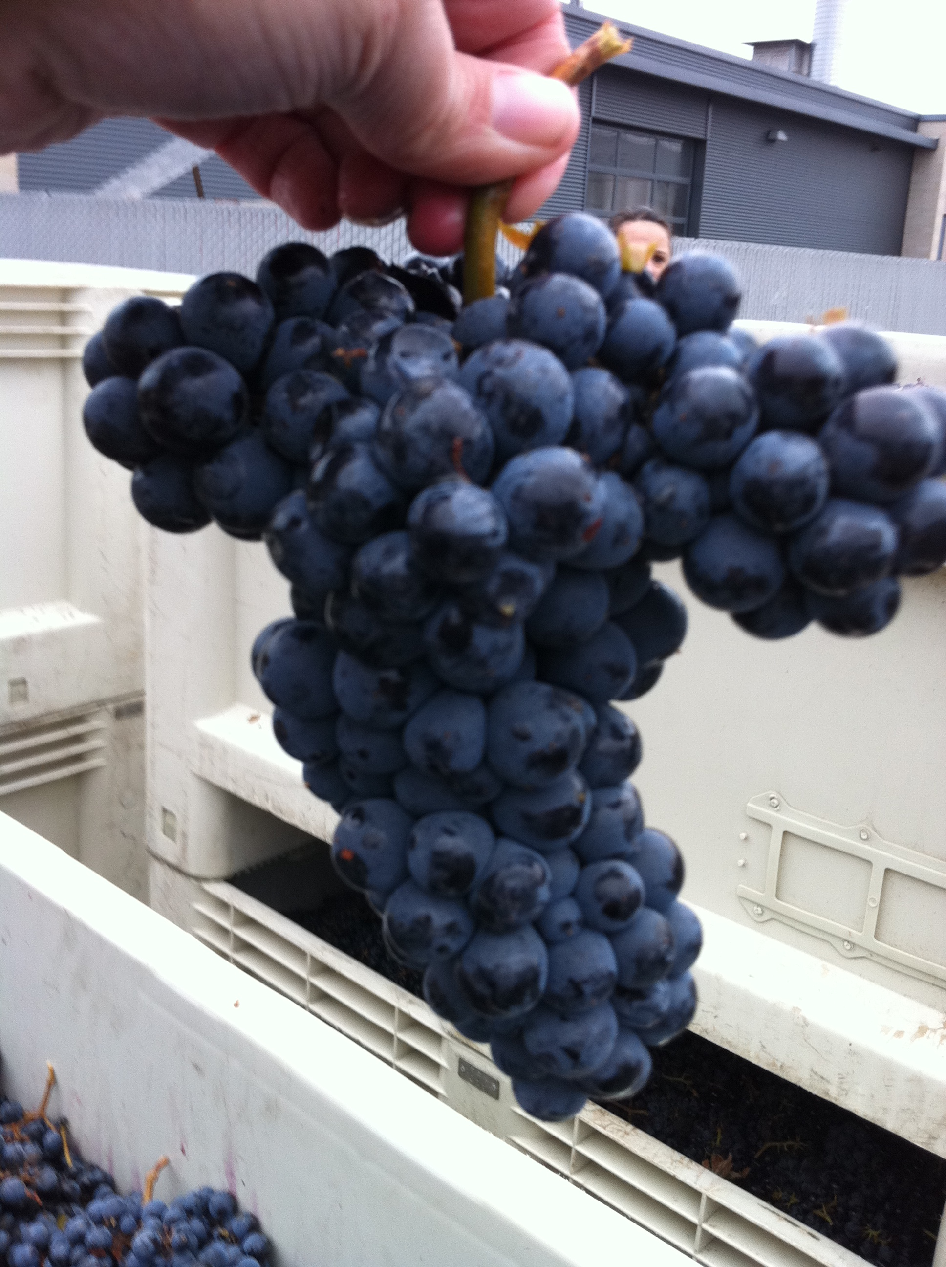 Cabernet Franc clusters grown in the Columbia Valley of Washington State.